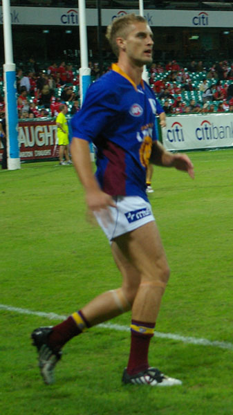 Joel Patfull in his warm up outfit before a match for the Brisbane Lions